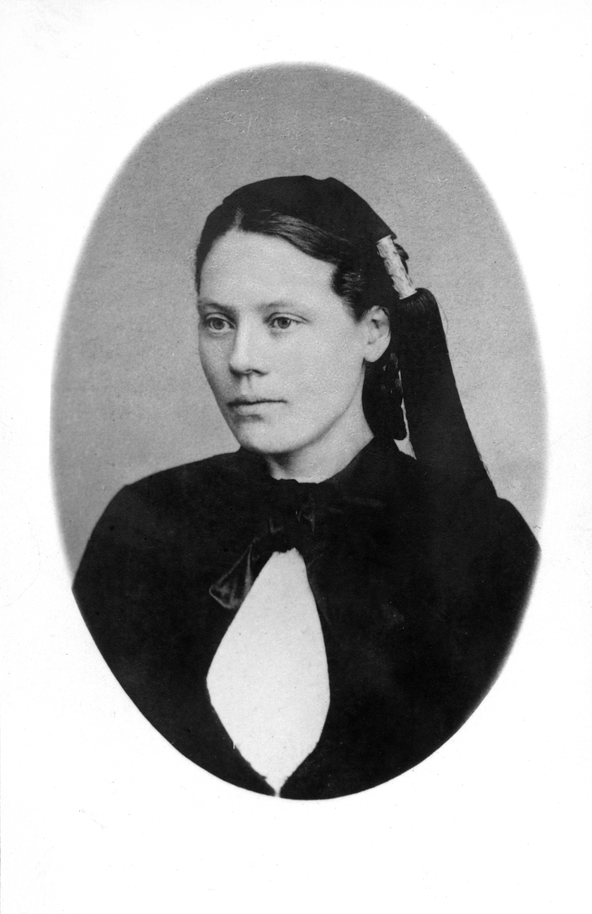 Bríet Bjarnhéðinsdóttir, Icelandic leader of women's suffrage. Between 1886 and 1890.